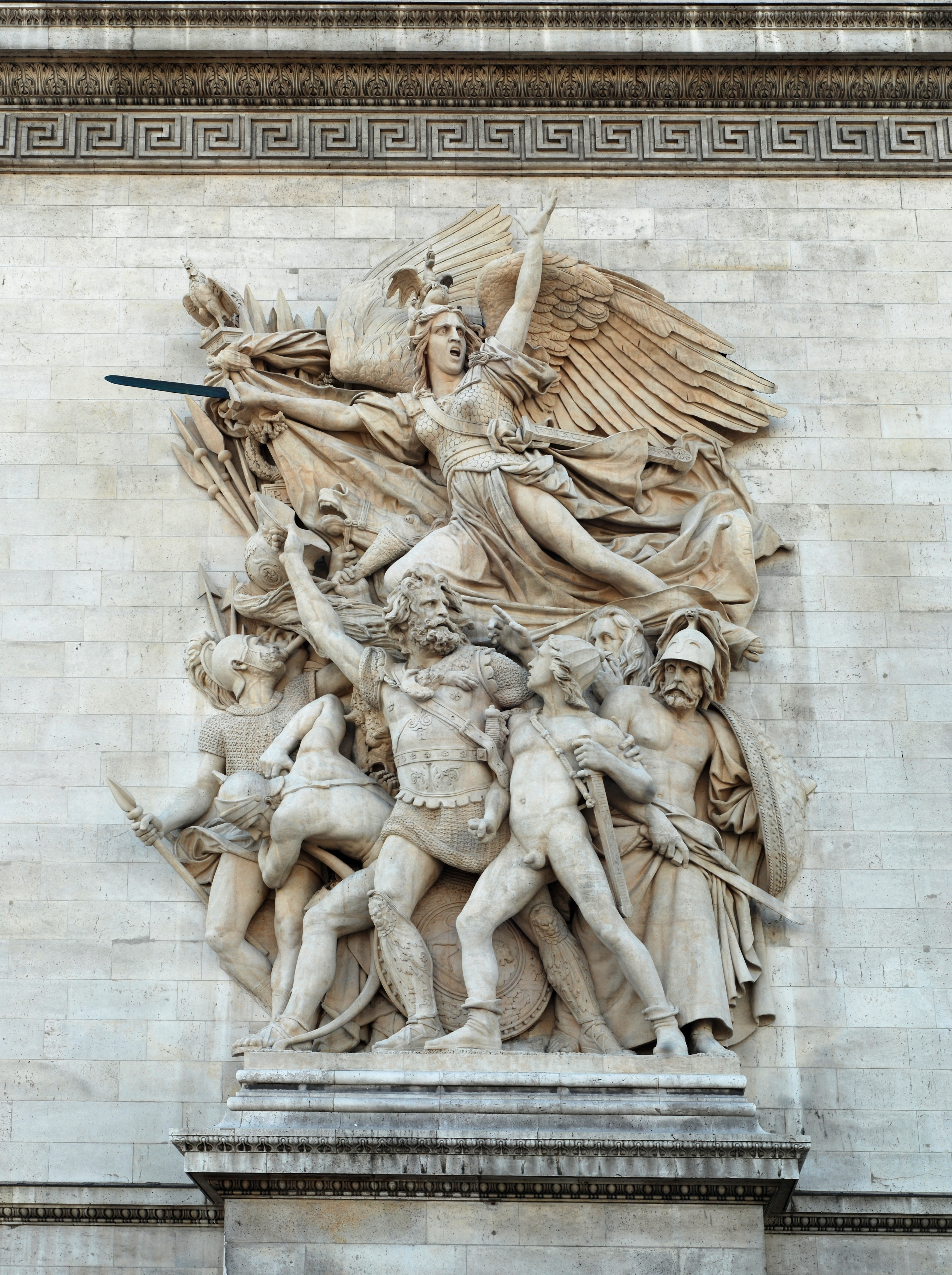 Sculpture in the Arc du Triomphe, Paris: Le Départ de 1792 (La Marseillaise)